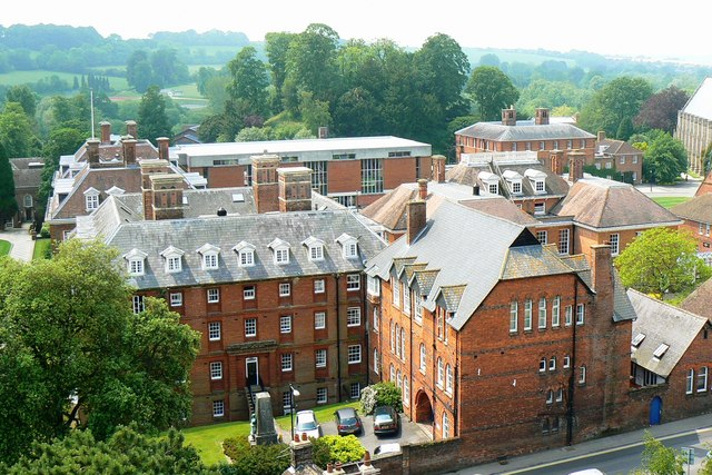 Marlborough College from St Peter's church roof The college was established as a public school in the 1840s. A mix of old and more recent buildings can be seen in this view.